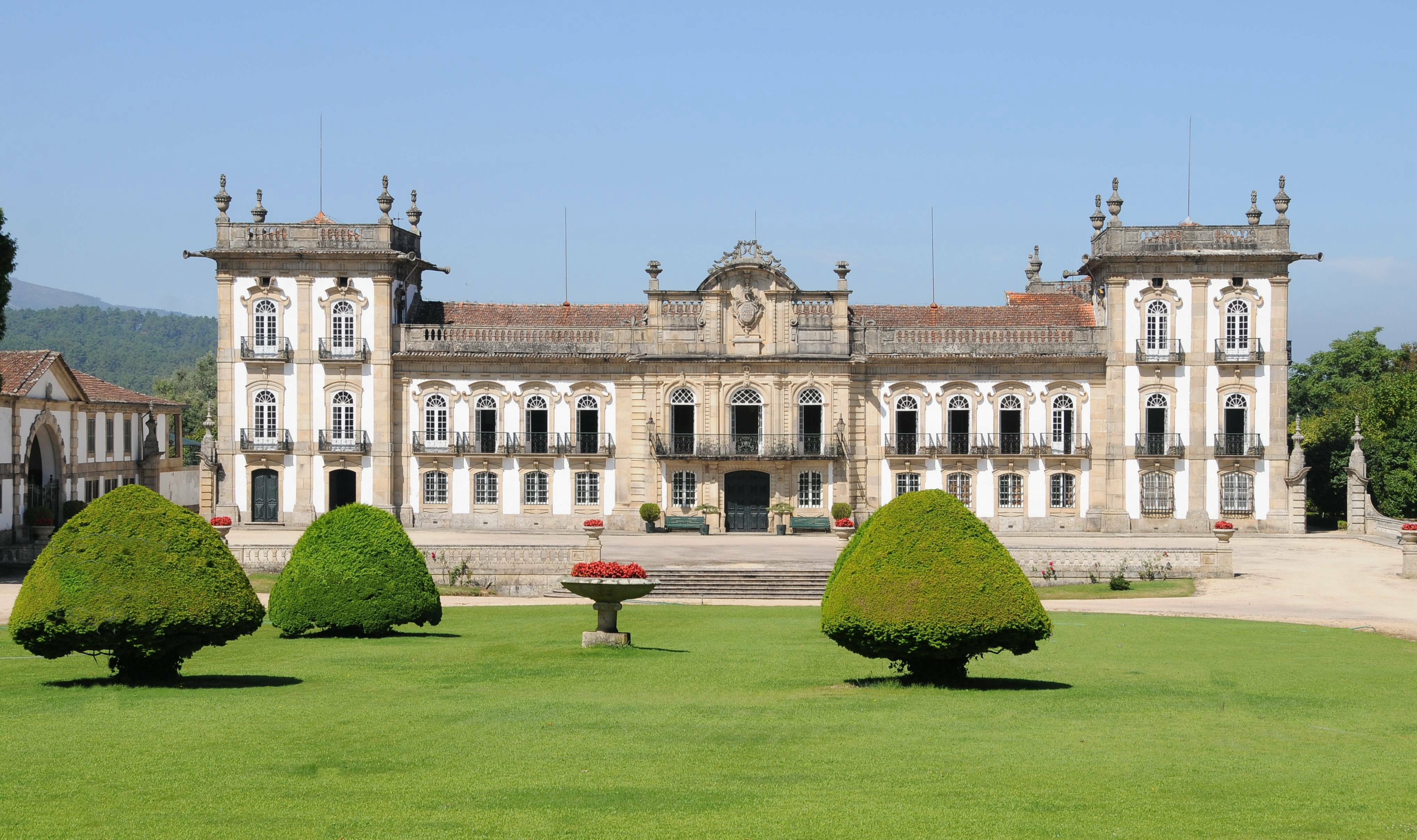 Brejoeira Palace in Monção Portugal.